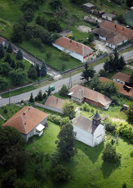 Borsod-Abaúj-Zemplén County, Hernádbűd, Hungary, aerial photographyReformátus templom, azonosító 2802 (törzsszám 1074). Román stílusú, 13. század. - Gótikus, 15. századi, valamint 17. századi átépítéssel. - Hernádbüd, Rákóczi utca